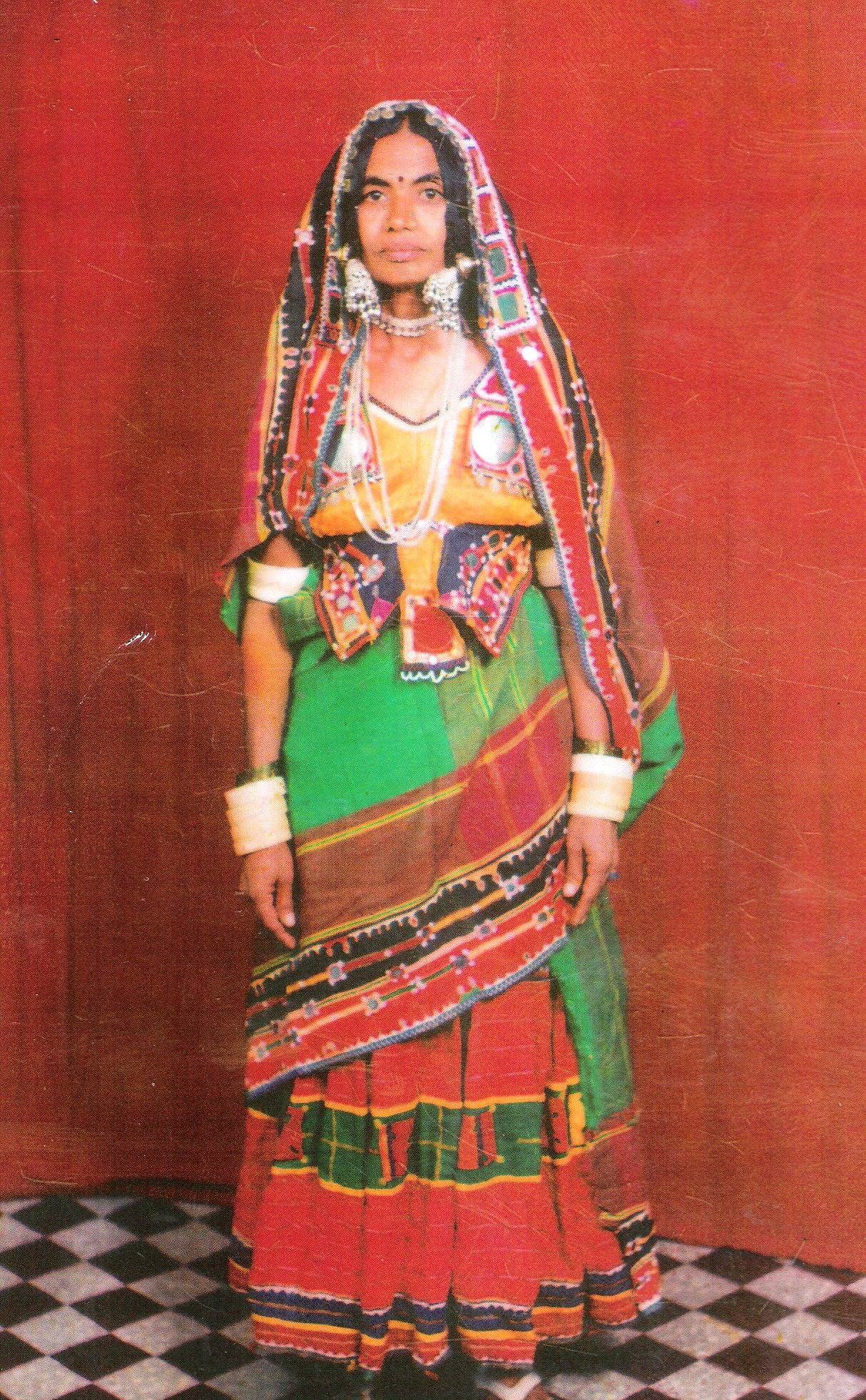 traditional banjara dress